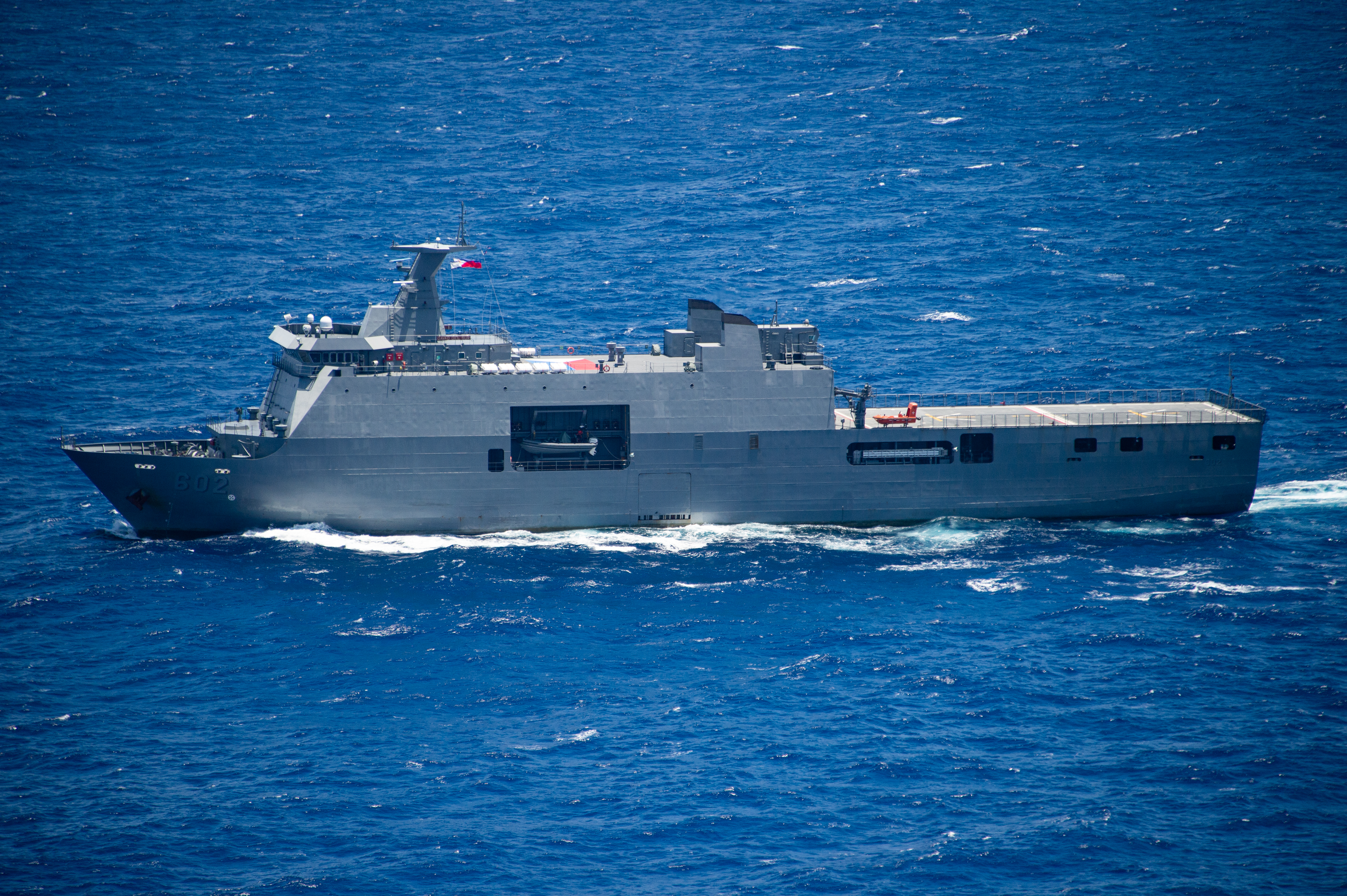 PACIFIC OCEAN (July 26, 2018) Philippine Navy landing platform dock BRP Davao Del Sur (LD 602) participates in a group sail during the Rim of the Pacific (RIMPAC) exercise off the coast of Hawaii, July 26. Twenty-five nations, 46 ships and five submarines, and about 200 aircraft and 25,000 personnel are participating in RIMPAC from June 27 to Aug. 2 in and around the Hawaiian Islands and Southern California. The world's largest international maritime exercise, RIMPAC provides a unique training opportunity while fostering and sustaining cooperative relationships among participants critical to ensuring the safety of sea lanes and security of the world's oceans. RIMPAC 2018 is the 26th exercise in the series that began in 1971. (U.S. Navy photo by Mass Communication Specialist 1st Class Arthurgwain L. Marquez/Released)